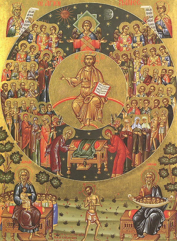 Ortodox icon of All Saint.